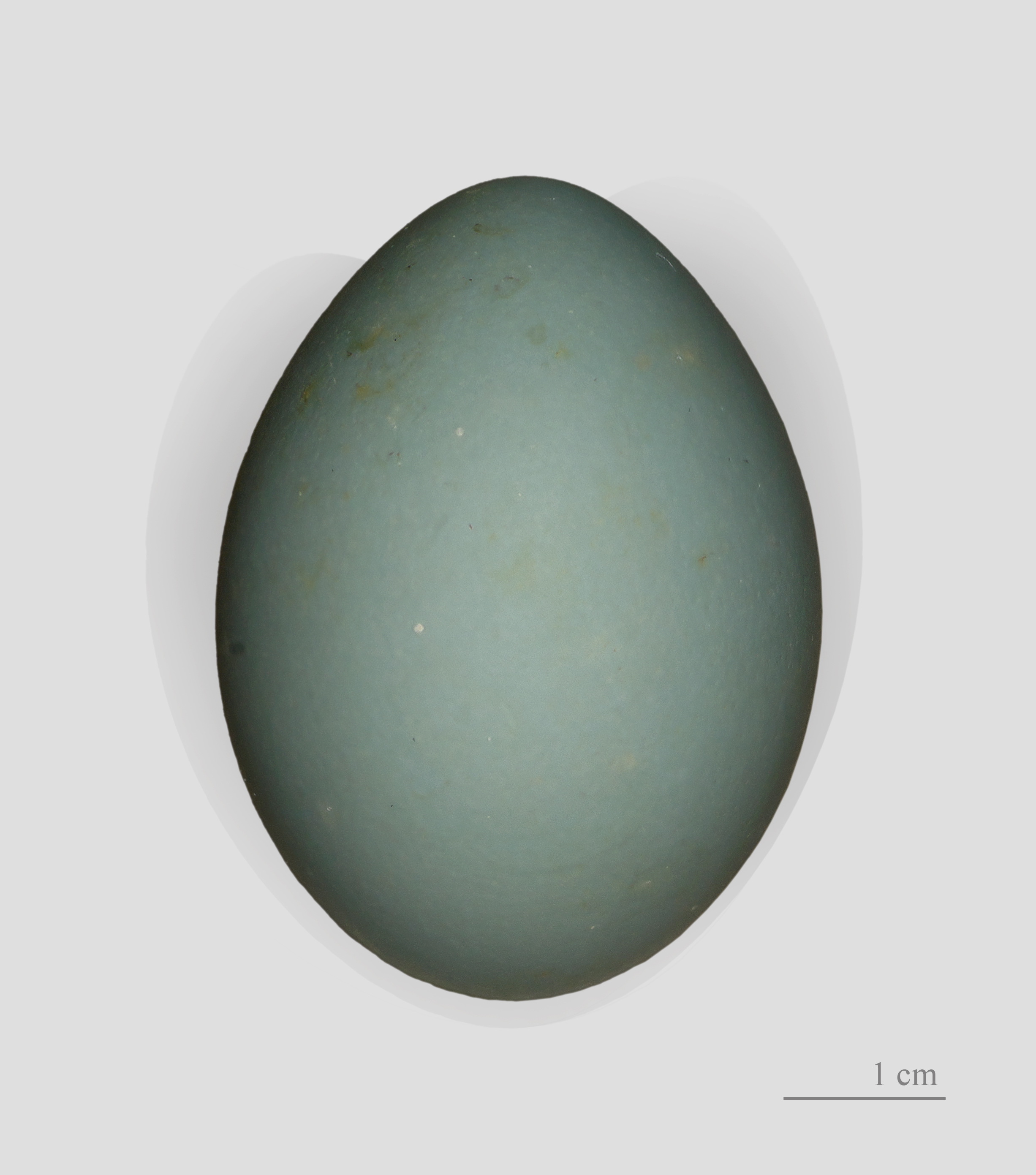 Egg of Little Egret. Former Collection of Jacques Perrin de Brichambaut; Collector Henri Heim de Balsac. Locality: Bosnia, Bosnia and Herzegovina